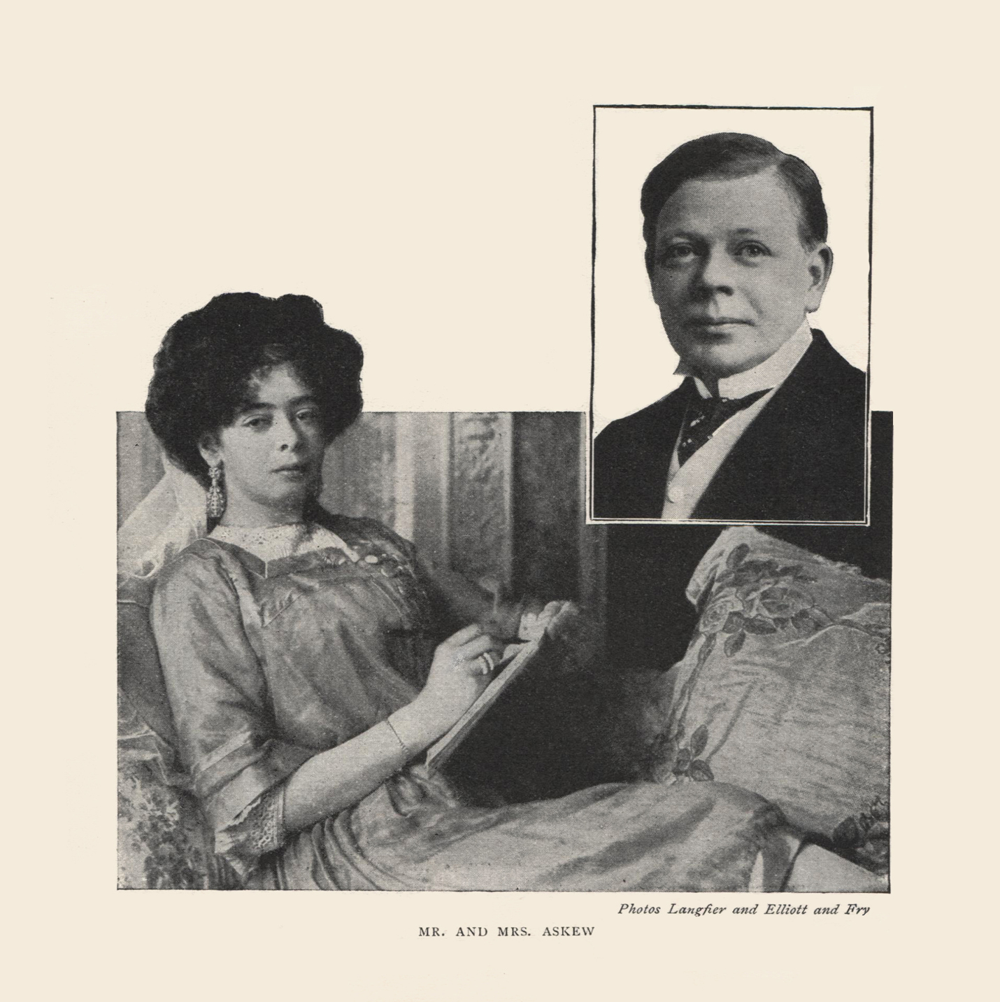 An edited image copied from: WOMAN AT HOME Volume VII (new series) August, 1912—January, 1913'. London: The Warwick Magazine Co. Ltd. p. 199. Being a collage of two photographs (one of Alice Askew, by Langfier; the other of Claude Askew, by Elliott and Fry.) to accompany the article from 'Woman At Home' October 1912: 'Wives Who Work With Their Husbands' by Rudolph de Cordova (illustrated from photographs).